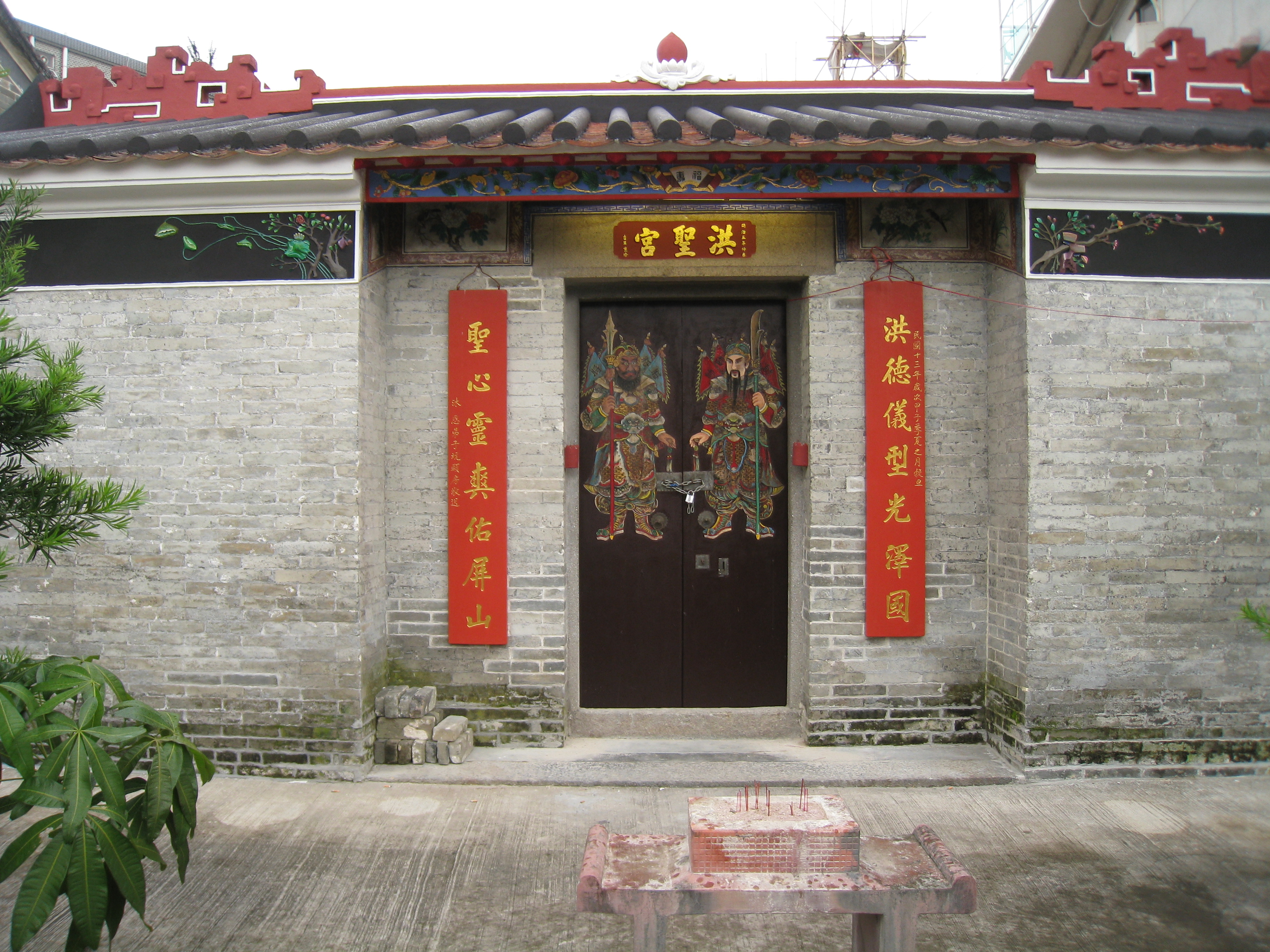 Hung Shing Temple